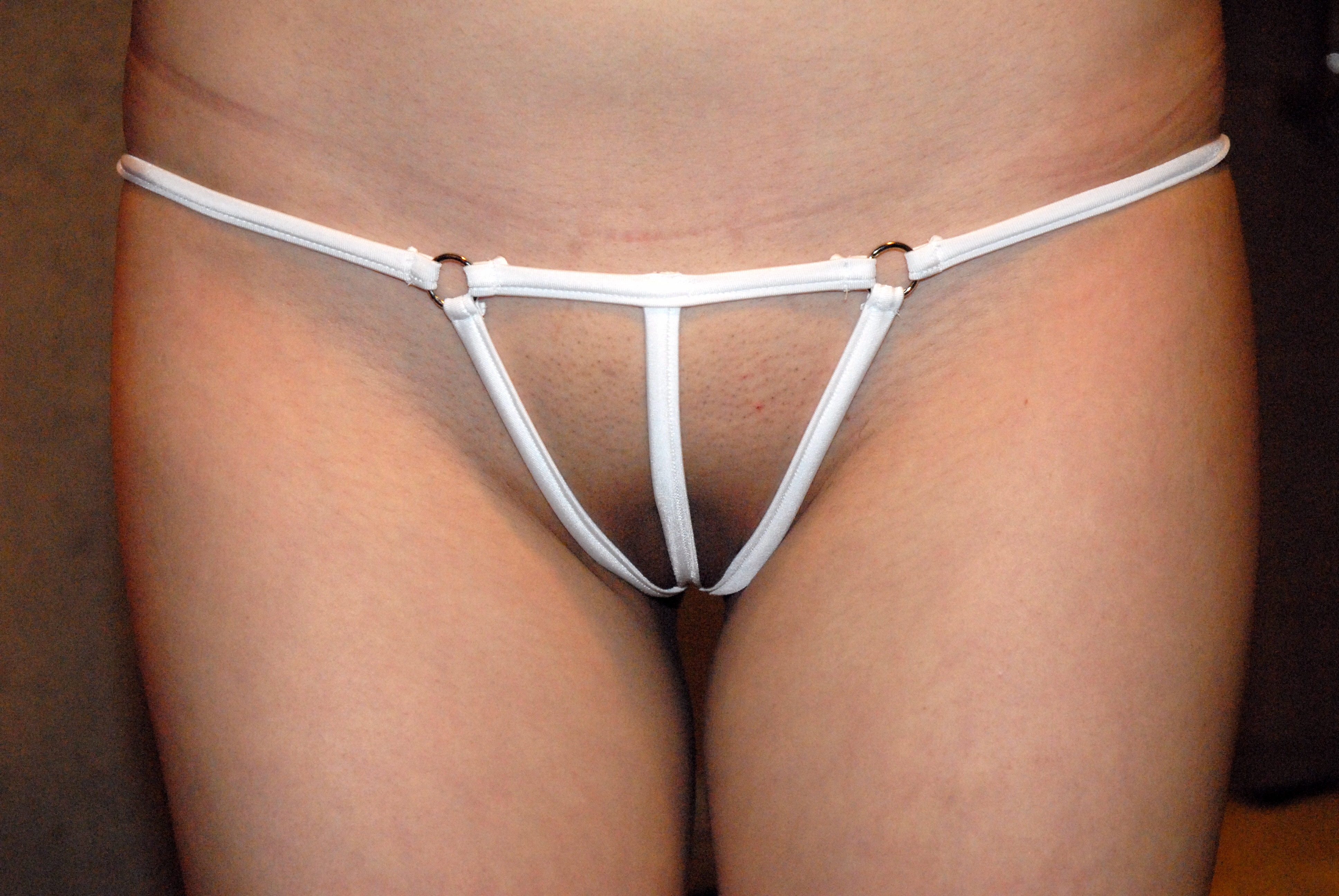 24 years old Japanese woman in white clothless string bikini bottom.